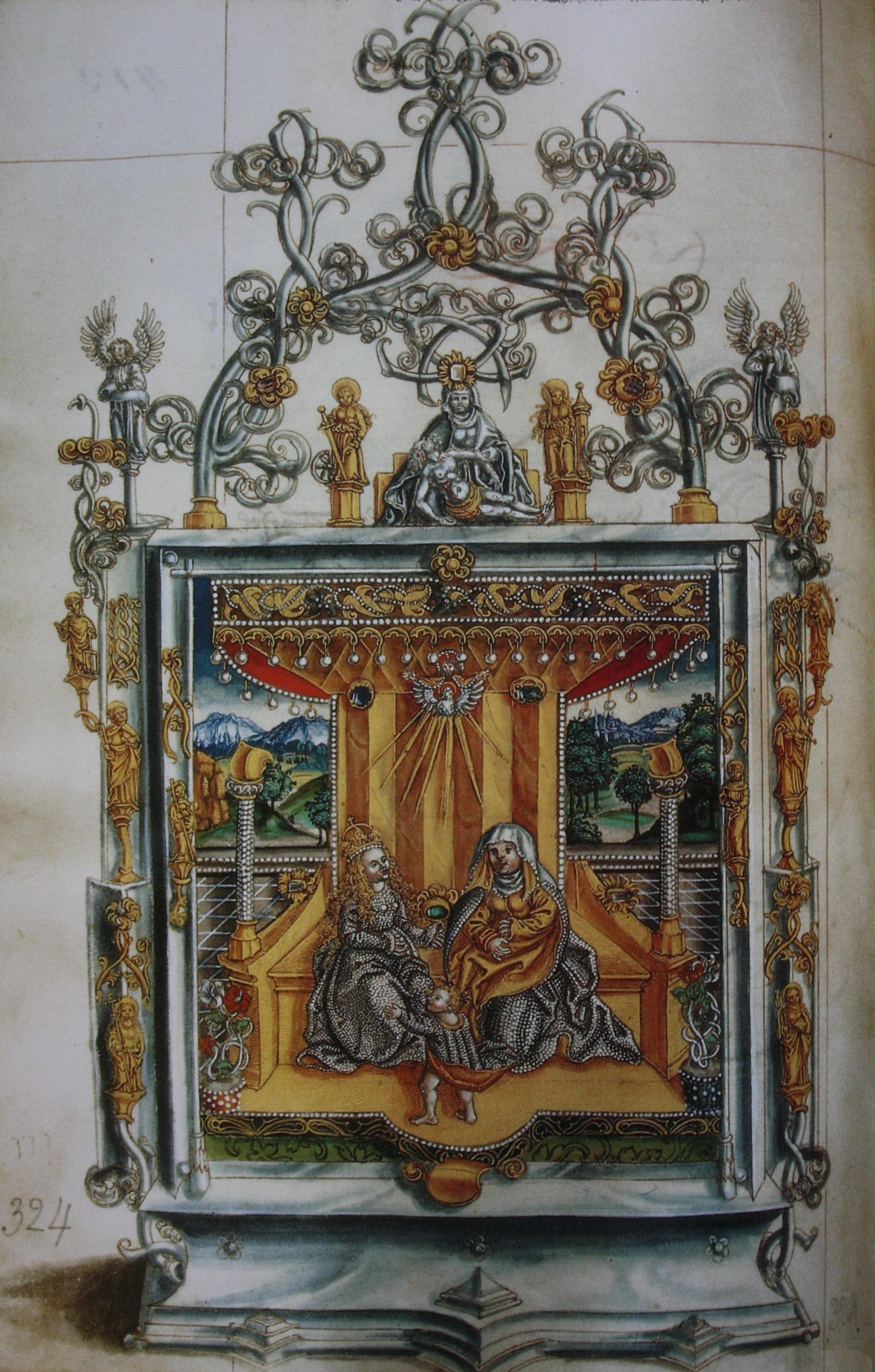 Silver portable altar with painted scene with Madonna Jesus and St. Anna from Hallesches Heiltum